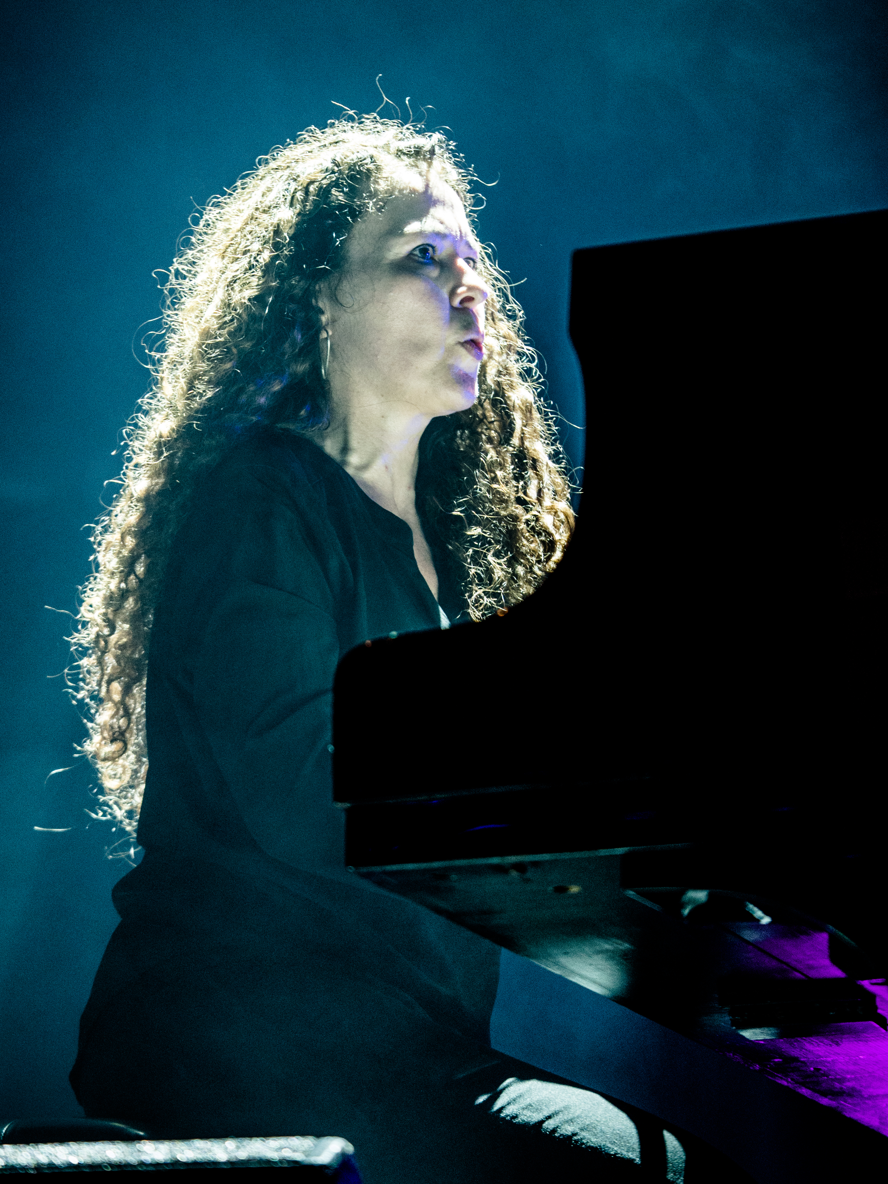 Swiss jazz pianist Sylvie Courvoisier at the Moers Festival 2017